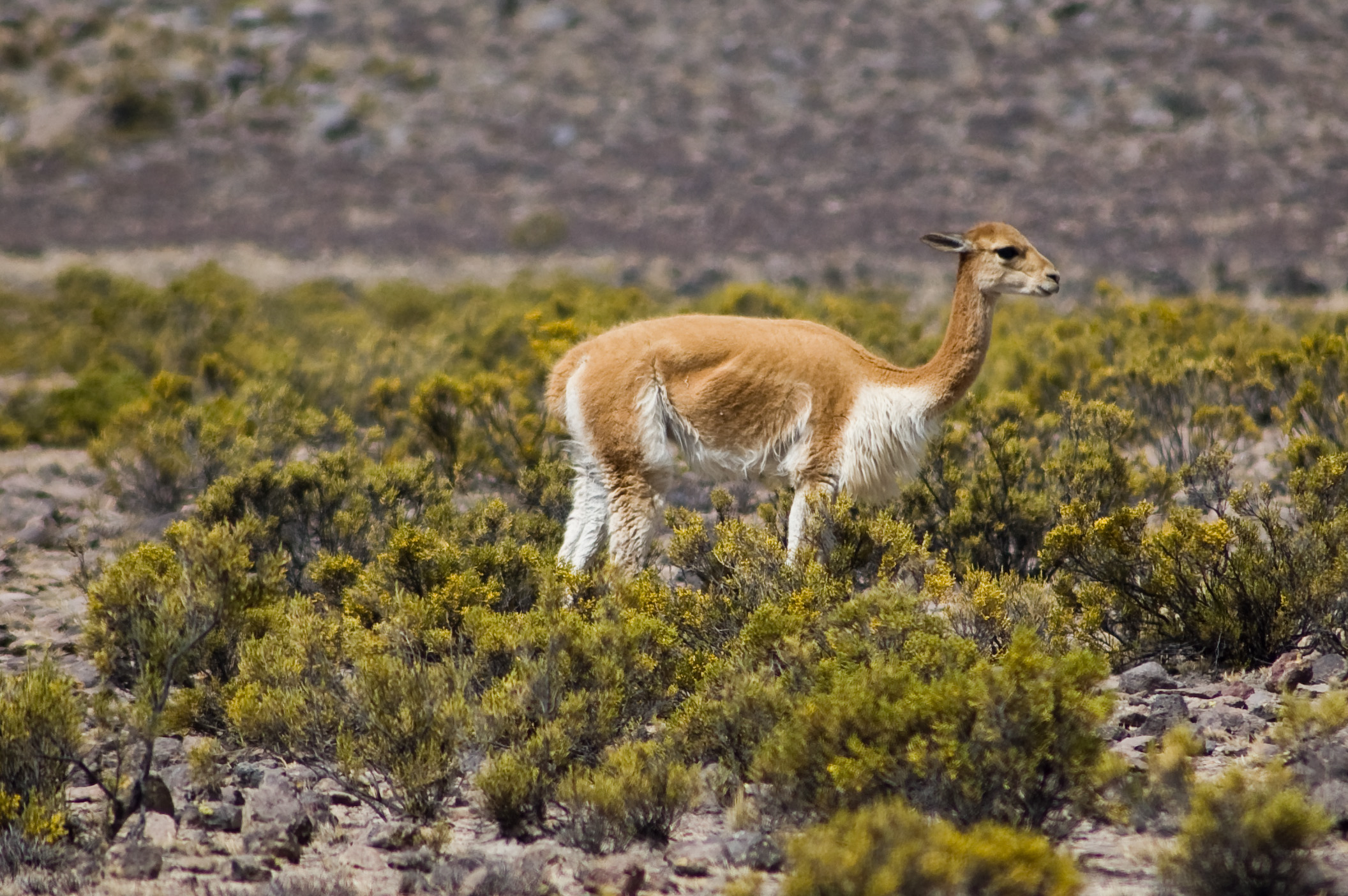 A vicuña (Vicugna vicugna) grazing near Arequipa, Peru.